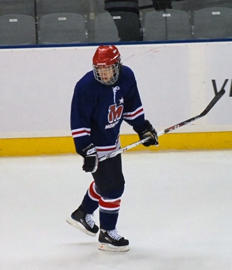 2009 Clarkson Cup, Semifinal: Montreal Stars vs. Brampton Thunder